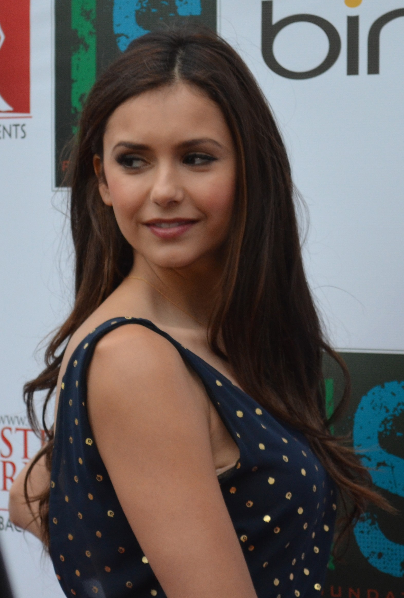 Actress Nina Dobrev at the Ian Somerhalder Foundation's Influence Affair Red Carpet in April 2012.